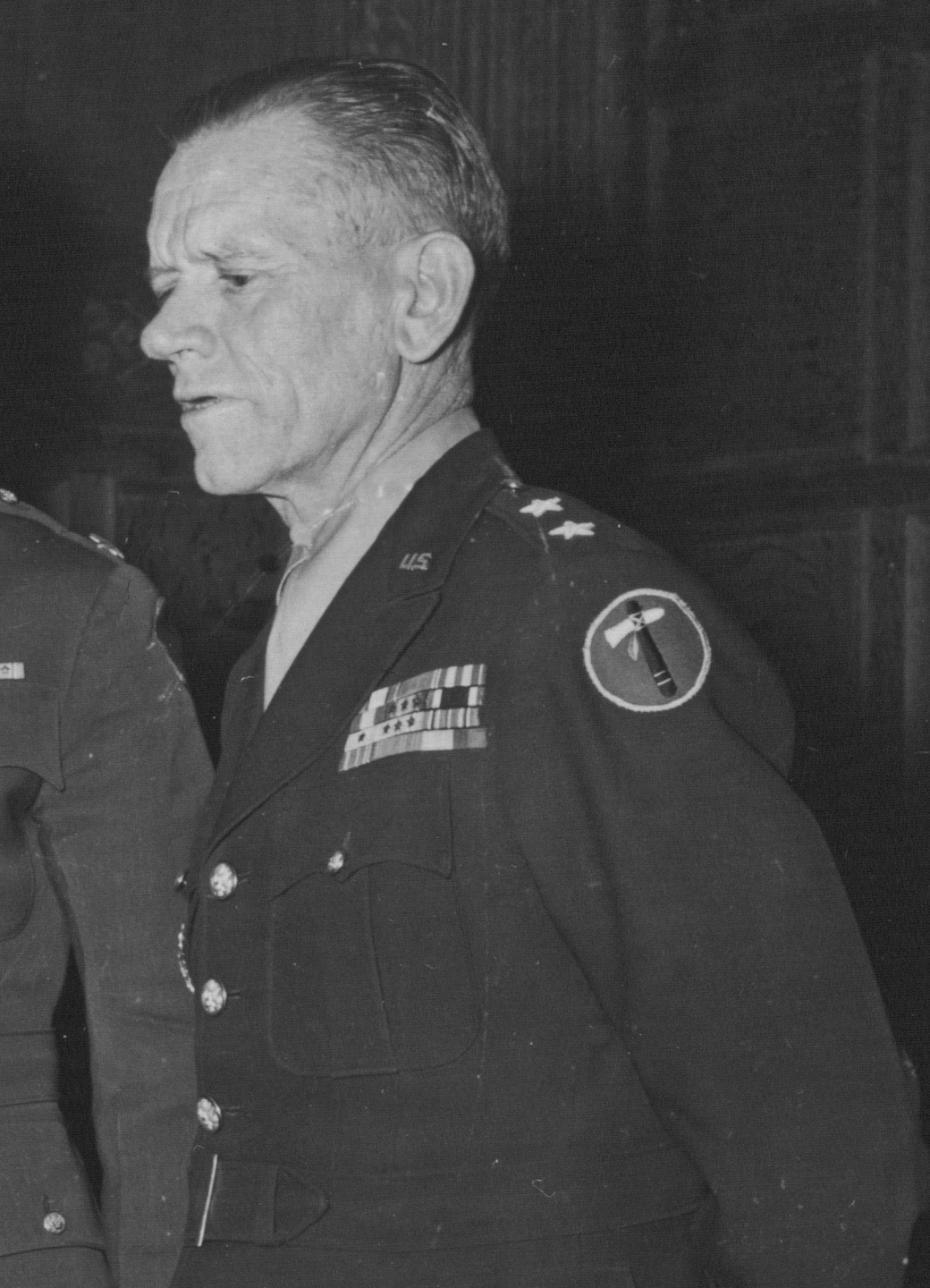 Original Caption: Maj. Gen. Charles H. Corlett, right, commanding the 19th Corps, awards Maj. Roy L. Atteberry of Corps G-3, the Silver Star at Boynton Manor Wilts, England, for gallantry in action against the Japanese in Kwajalein Island. Maj. Atteberry, under cover of riflemen, entered a bombproof shelter and found two natives and a Japanese soldier ready to throw a hand grenade. The Major disarmed the Japanese, thereby removing possible source of casualty other members of the attacking force. Maj. Atteberry is from Dallas, Texas. England 3 June 1944.